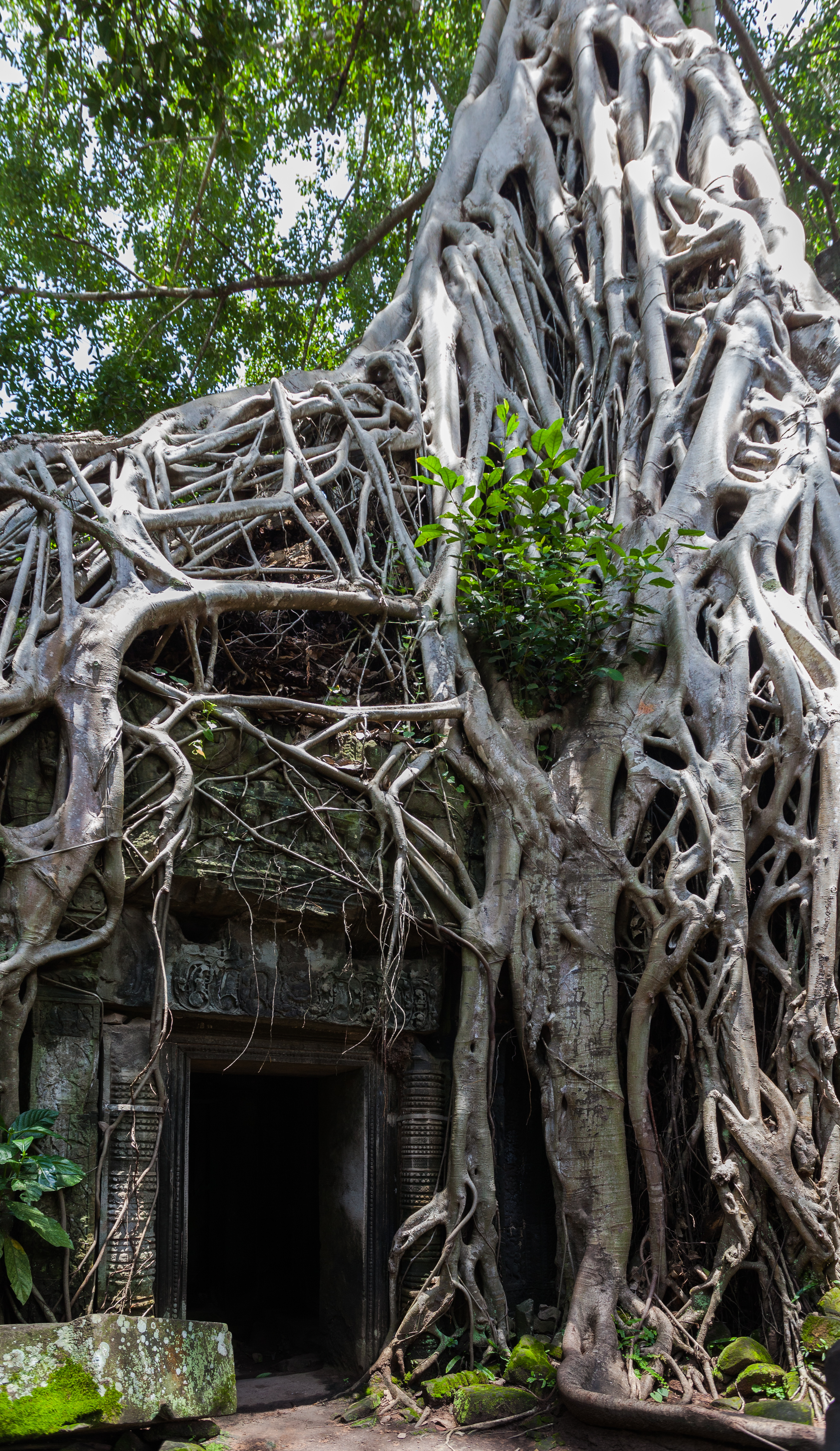 Ta Phrom, Angkor, Cambodia